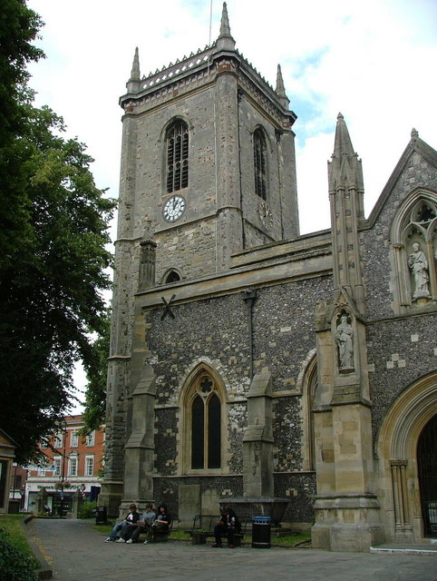 All Saints Parish Church